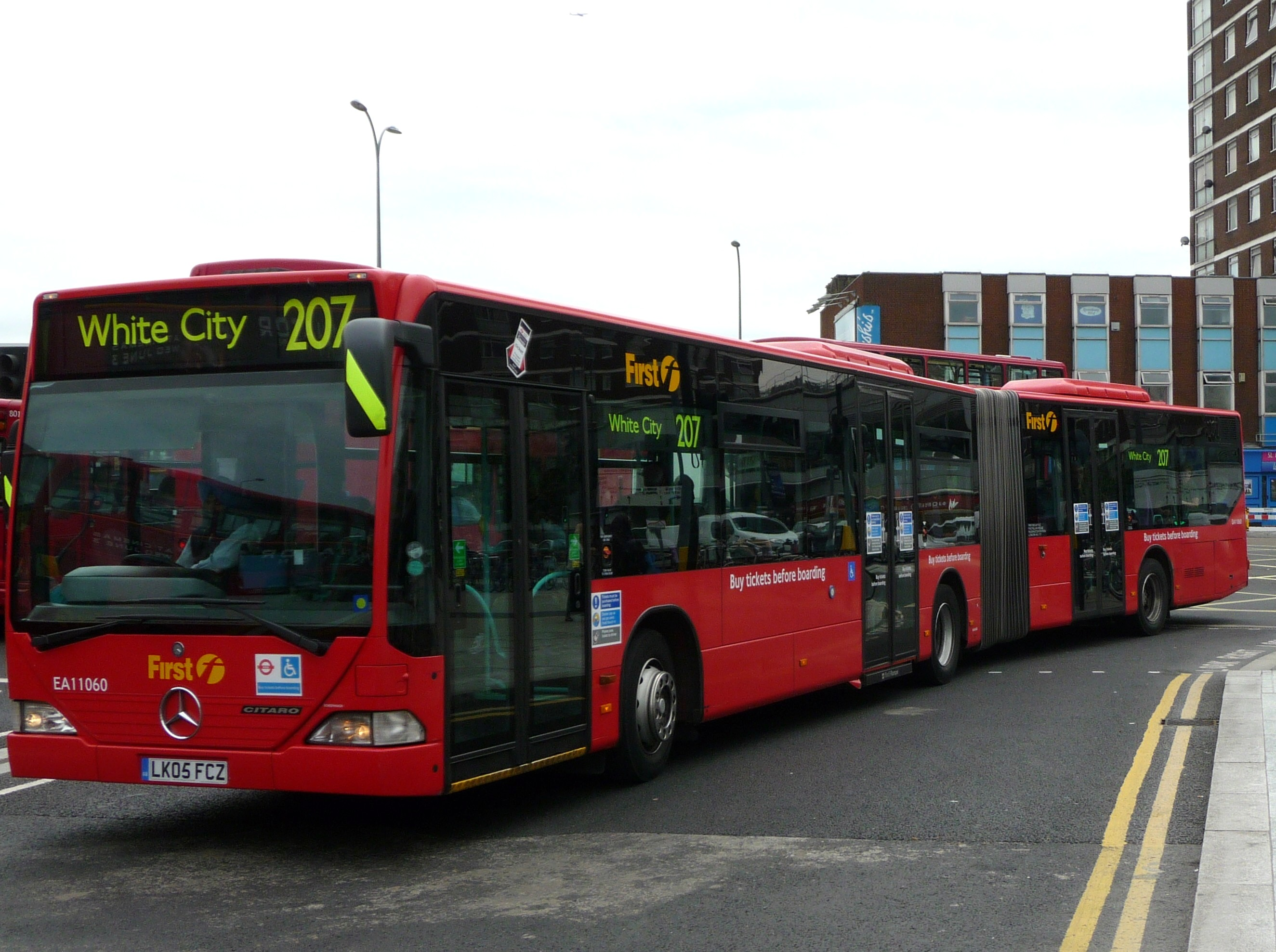 First London EA11060 (LK05 FCZ), a Mercedes-Benz Citaro, in Shepherd's Bush.